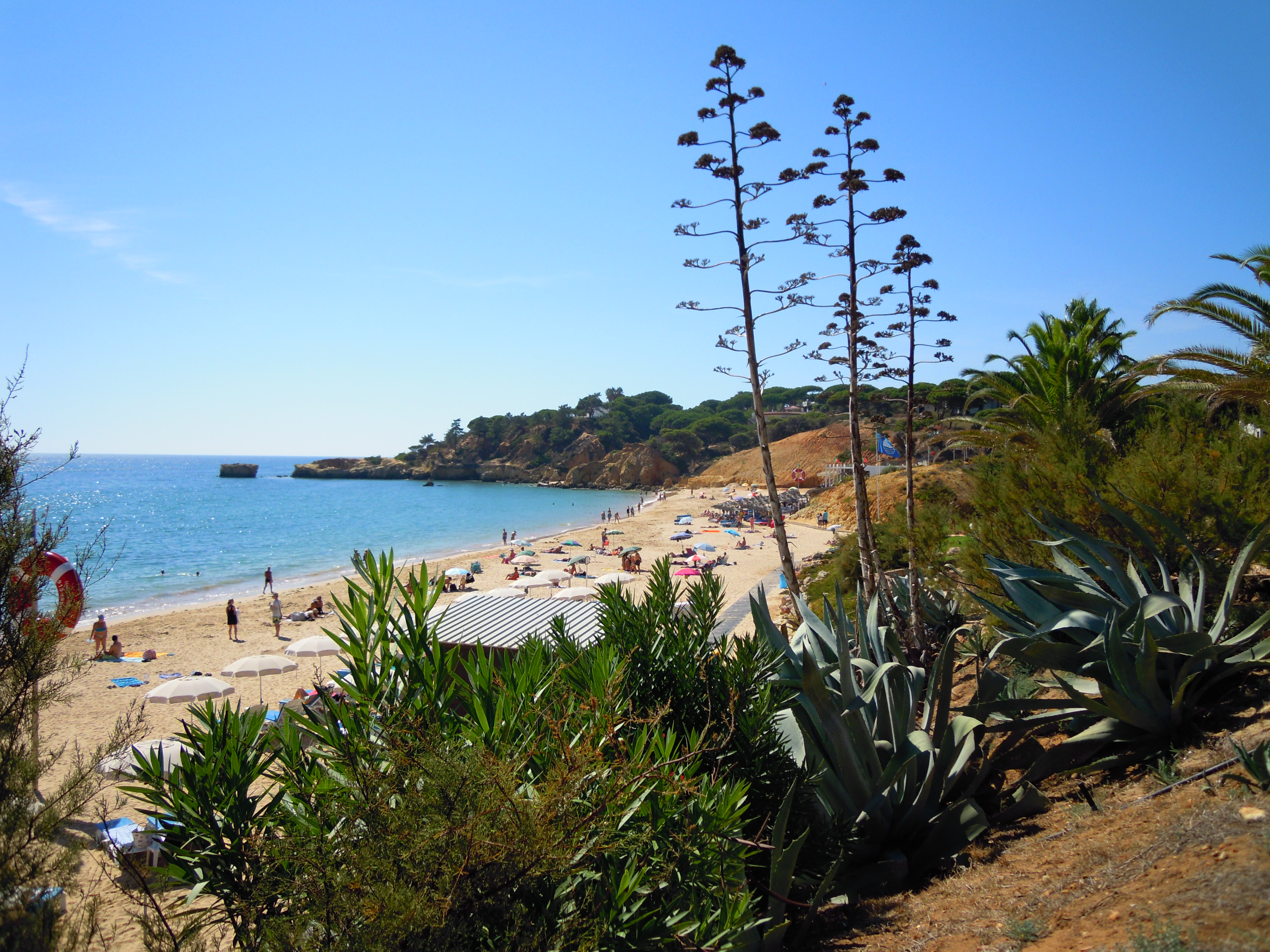 Photograph looking west along Praia Santa Eulália from the back cliffs